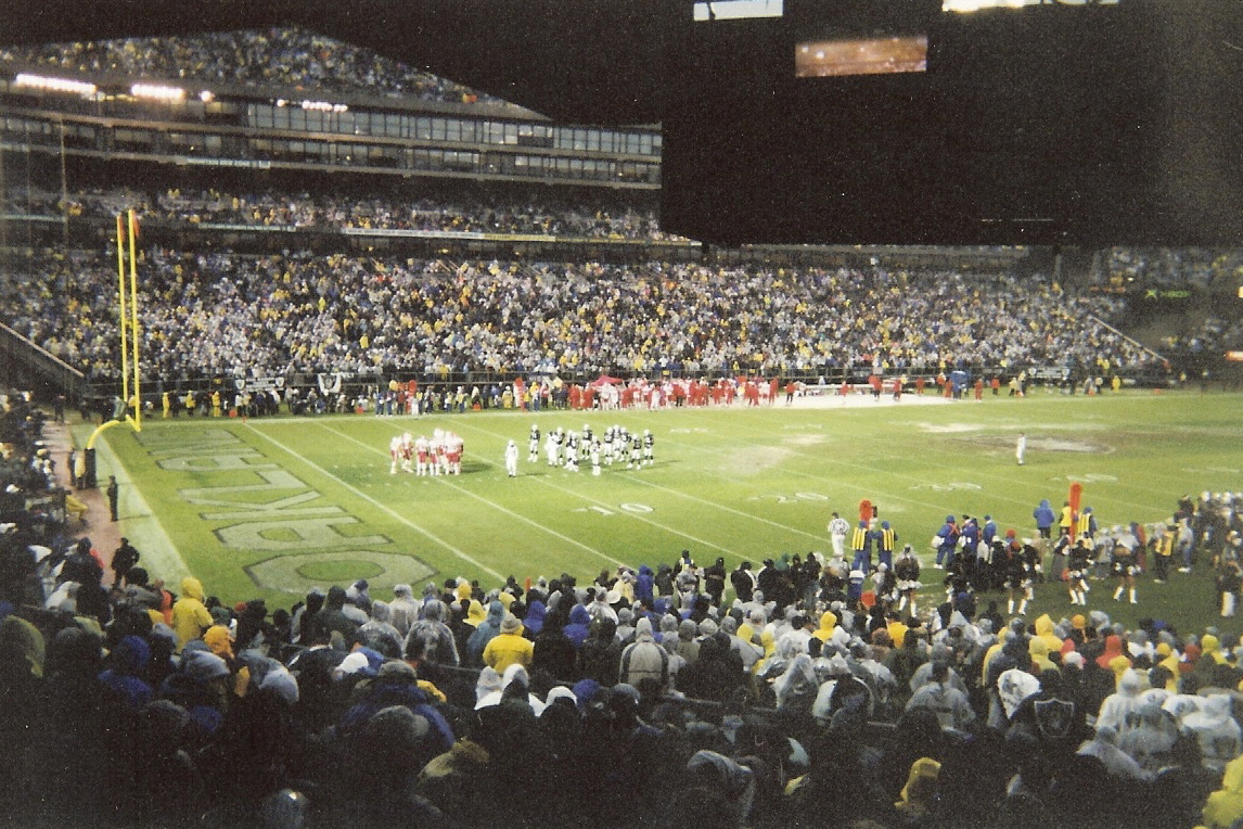 Original description: Oakland Raiders 24, Kansas City Chiefs 0 My second Oakland Raiders game on a rainy day in California and a snowy day driving over the Sierra Nevada Mountains that forced us to wait for four hours near Sacramento for Donner Pass to open up due to snowfall.